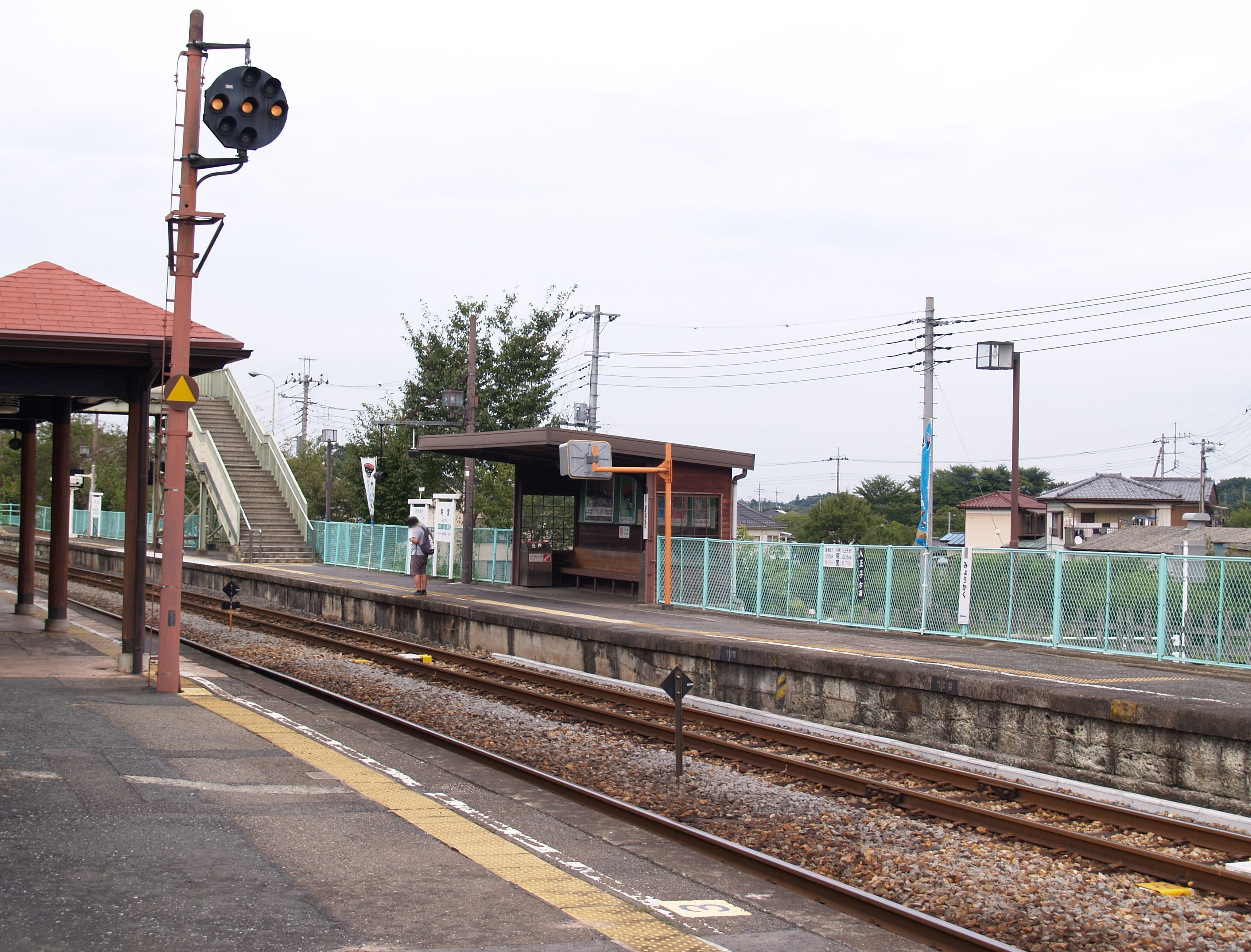 Myokaku Station platforms